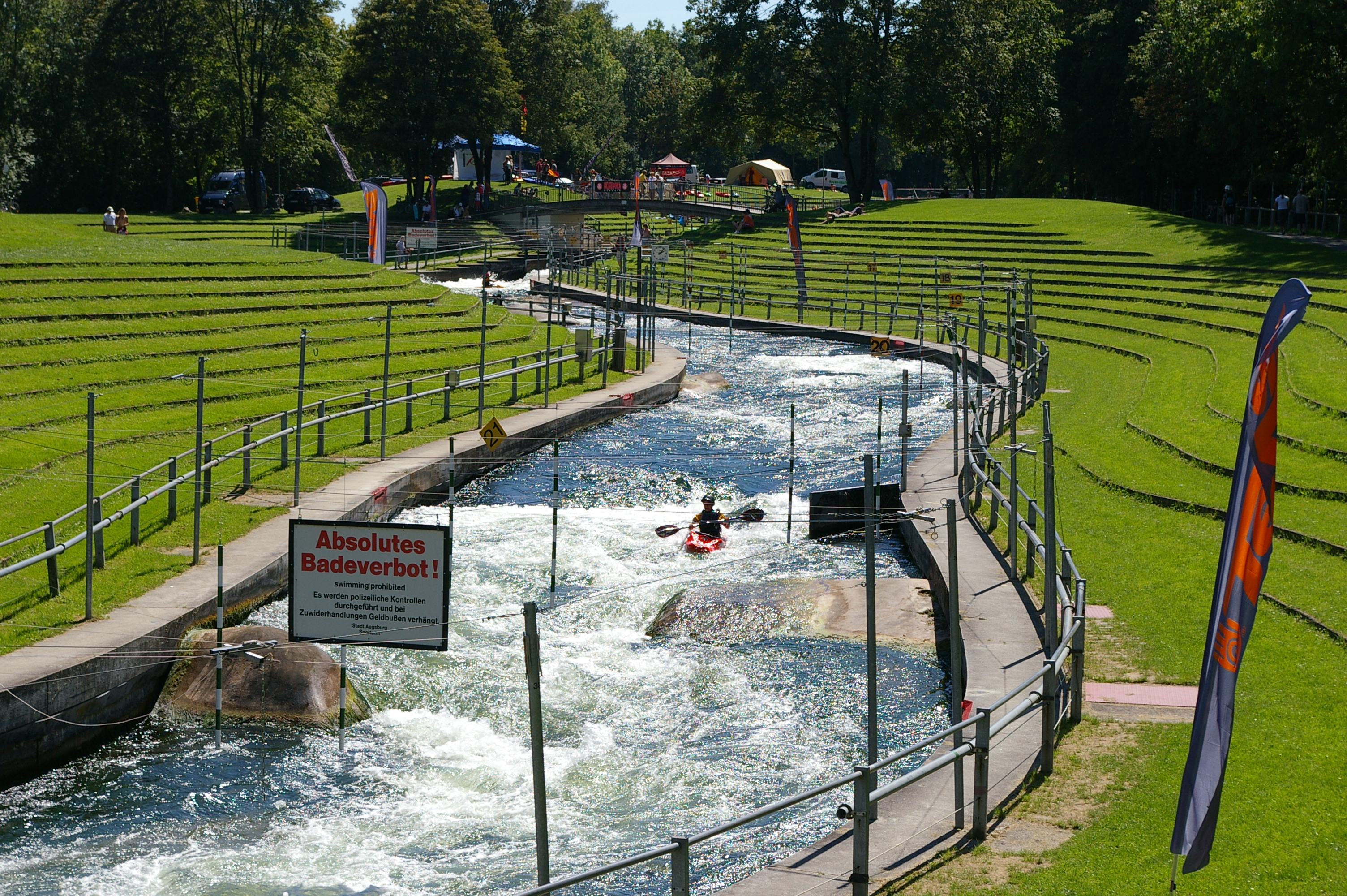 Augsburg Eiskanal, with water, kayaker passing Corkscrew and entering Carousel.